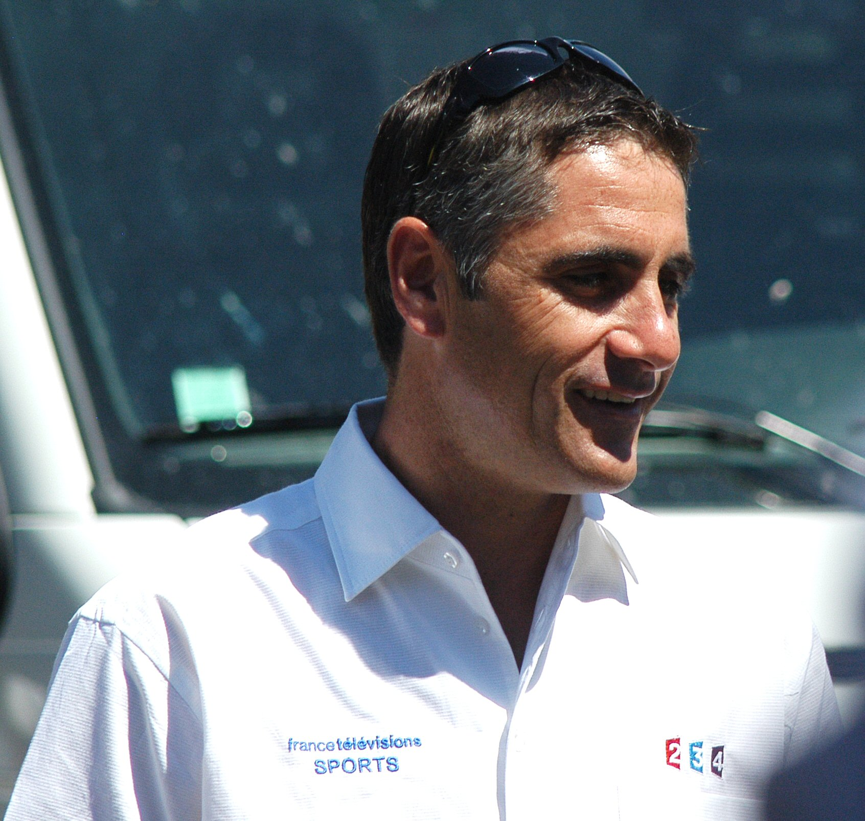 Laurent Jalabert at the start of stage 8 in Le Grand Bornand, Tour de France 2007.